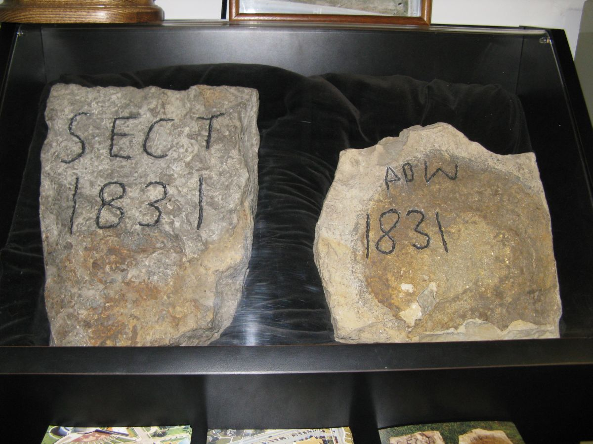 Temple Lot corner stones